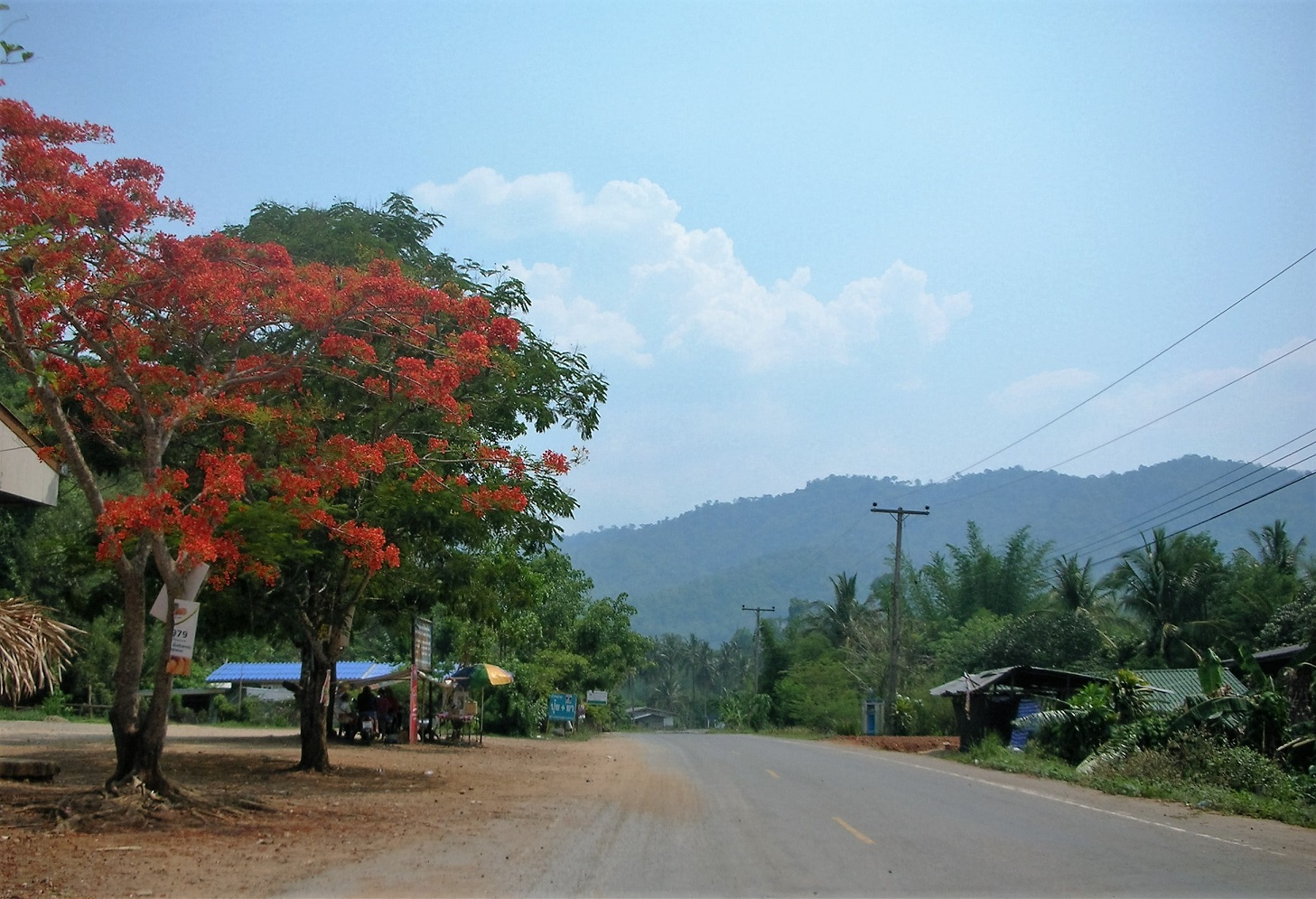 Village, Tambon Bong Ti, Kanchanaburi Province